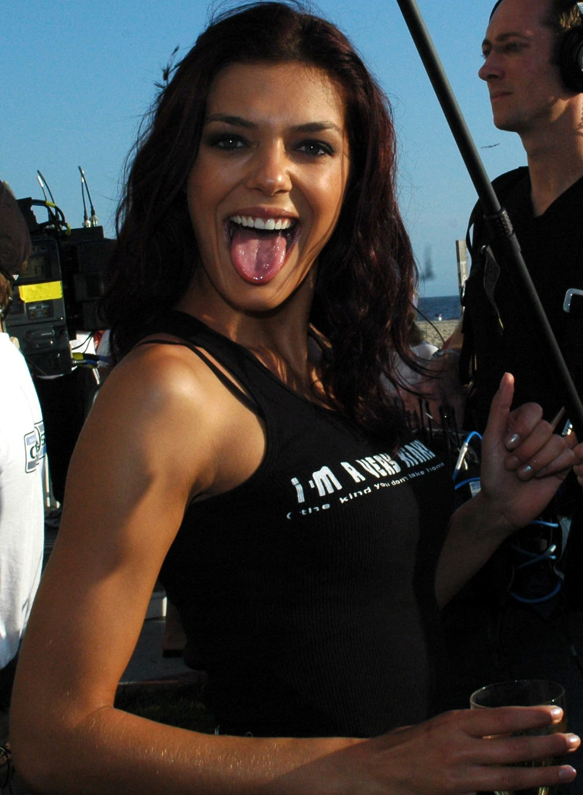 Adrianne Marie Curry during filming of My Fair Brady photo D Ramey Logan